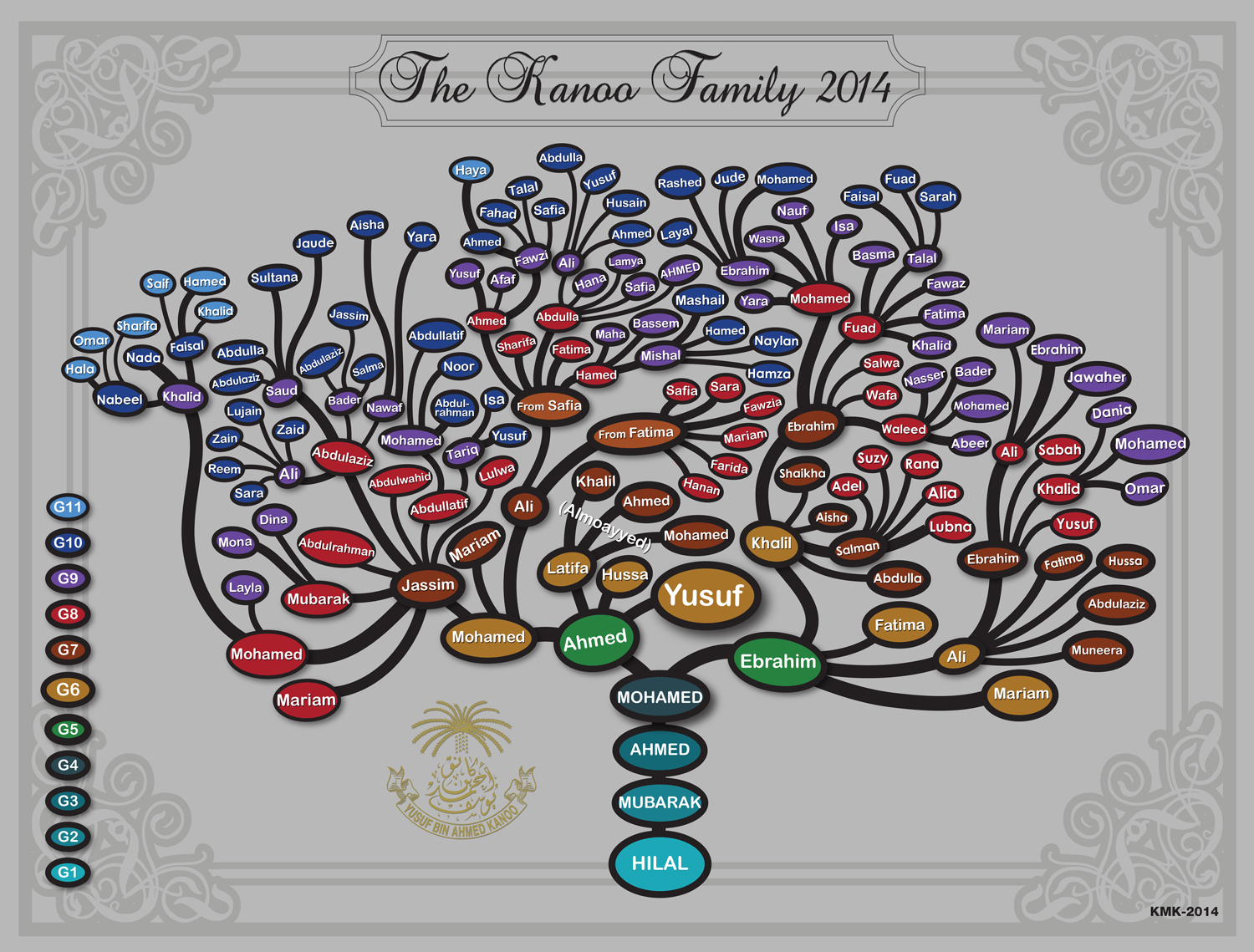 Kanoo family tree